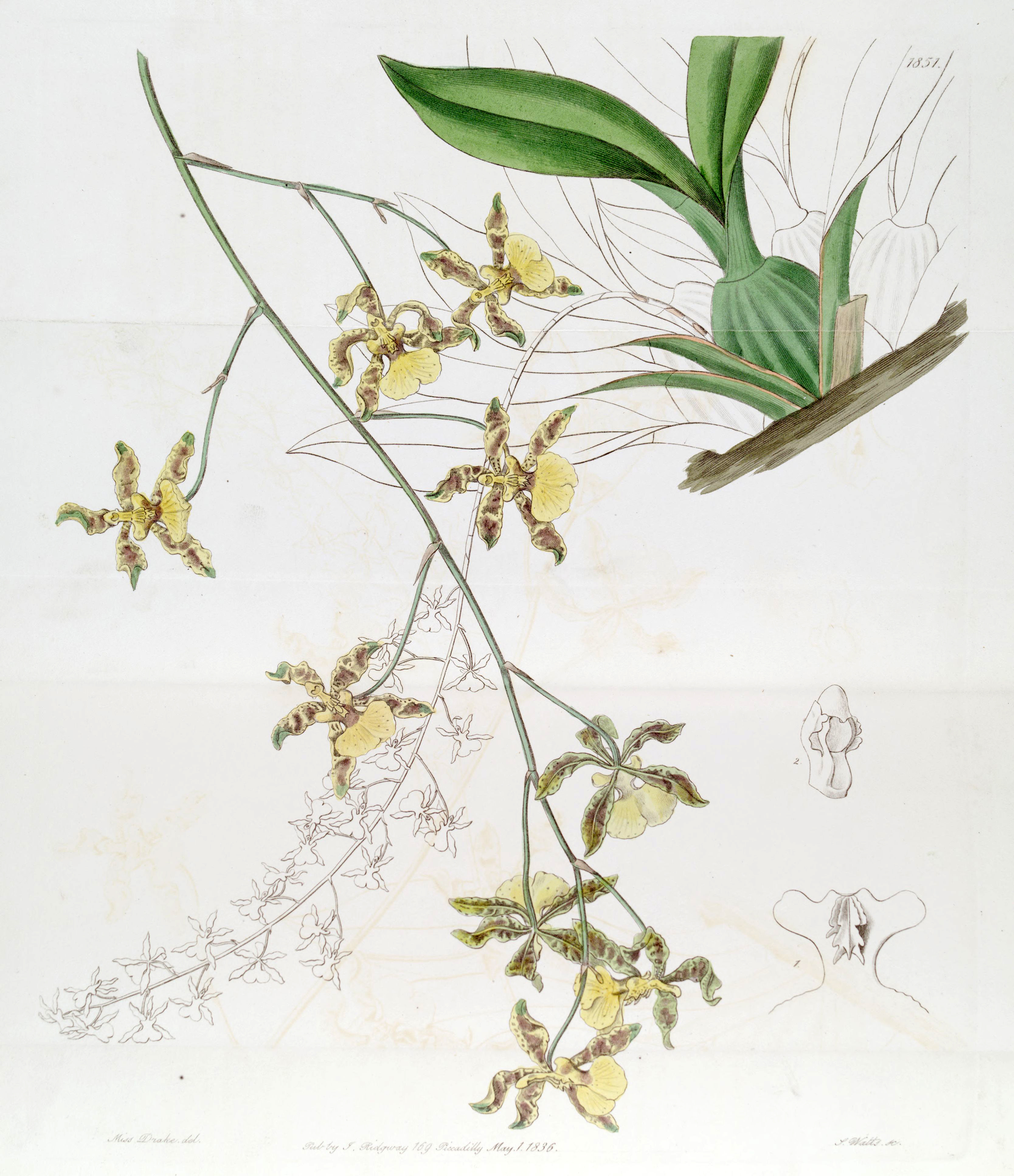 Oncidium altissimum (This drawing is NOT Oncidium baueri, see disambiguation page Oncidium altissimum)